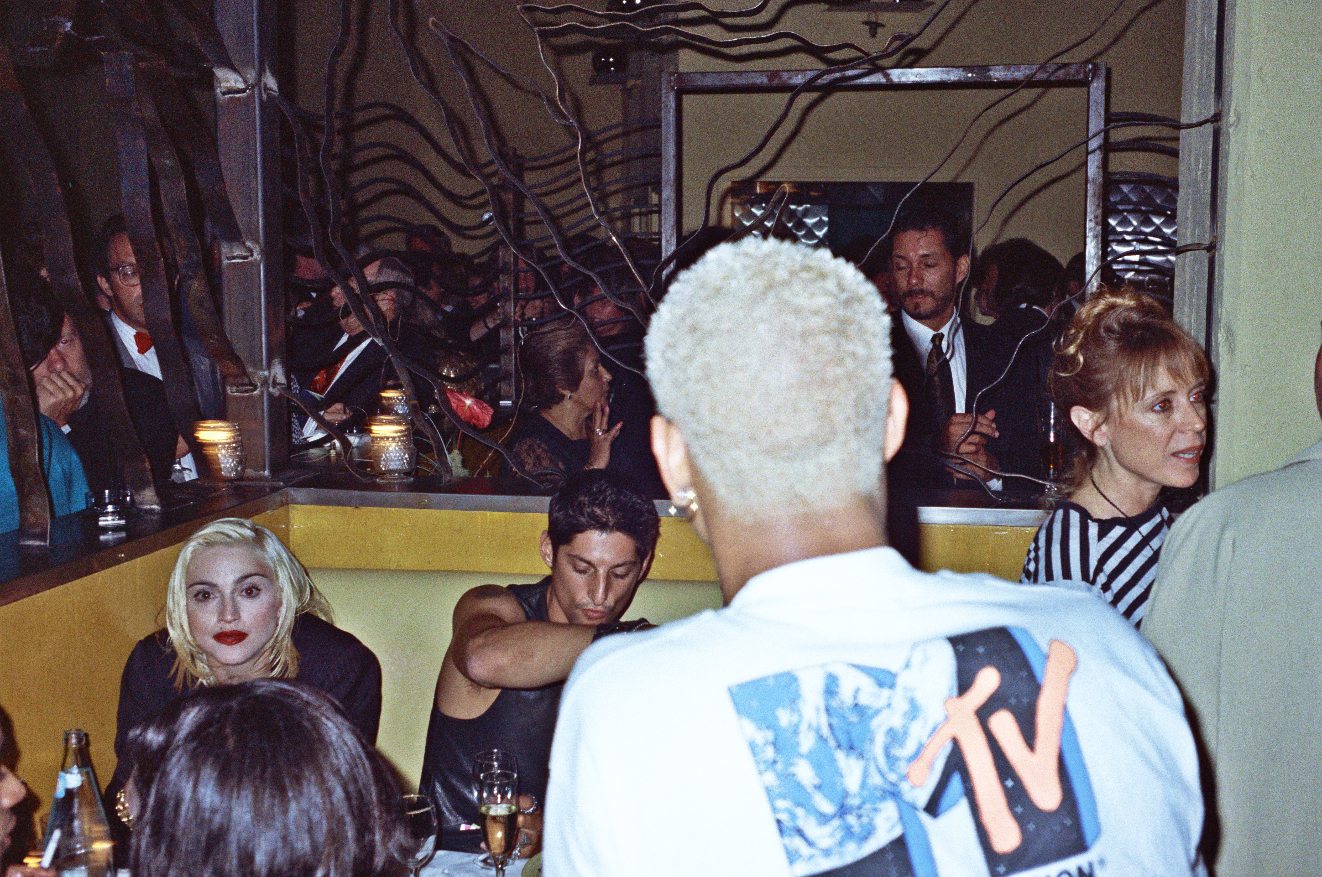 AIDS PROJECT LOS ANGELES benefit with Madonna and other stars, December, 1990. Tony Ward is sitting next to Madonna in this picture. This is a high resolution scan of the original film negative - 256 pixels/inch. Permission granted to copy, publish or post but please credit "photo by Alan Light" if you can. Thanks.